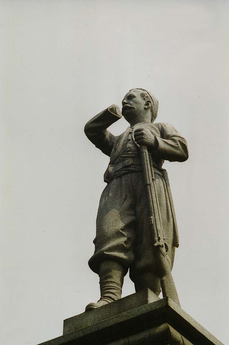 155th Pennsylvania Infantry, Gettysburg Battlefield, 1889